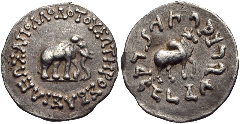 Apollodotus I round bilingual